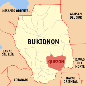 Map of the Bukidnon showing the location of Quezon